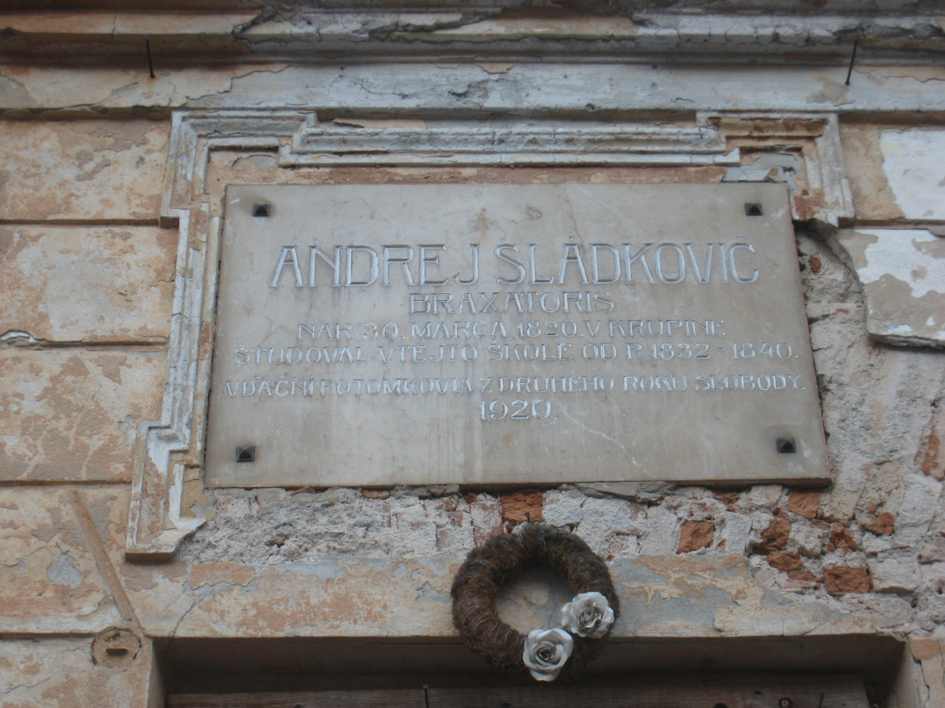 Memorial stone of Andrej Sladkovic on the façade of the school of Banska Stiavnica.